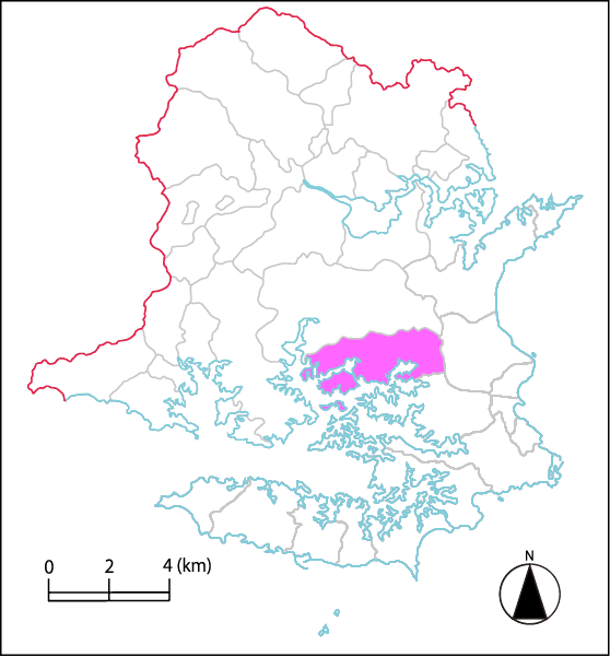 This is the map of Agocho-Shimmei, Shima, Mie, Japan.